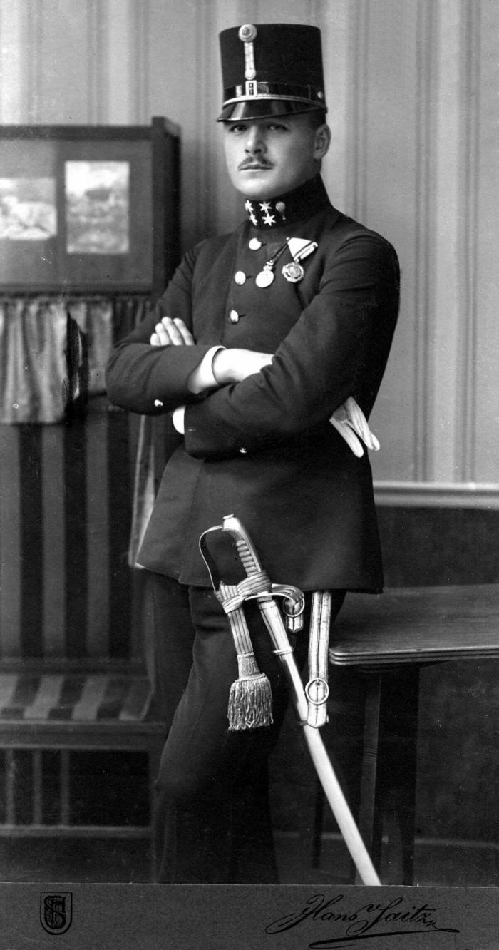 Aviation pioneer Eduard Nittner (1885-1913) in military uniform.